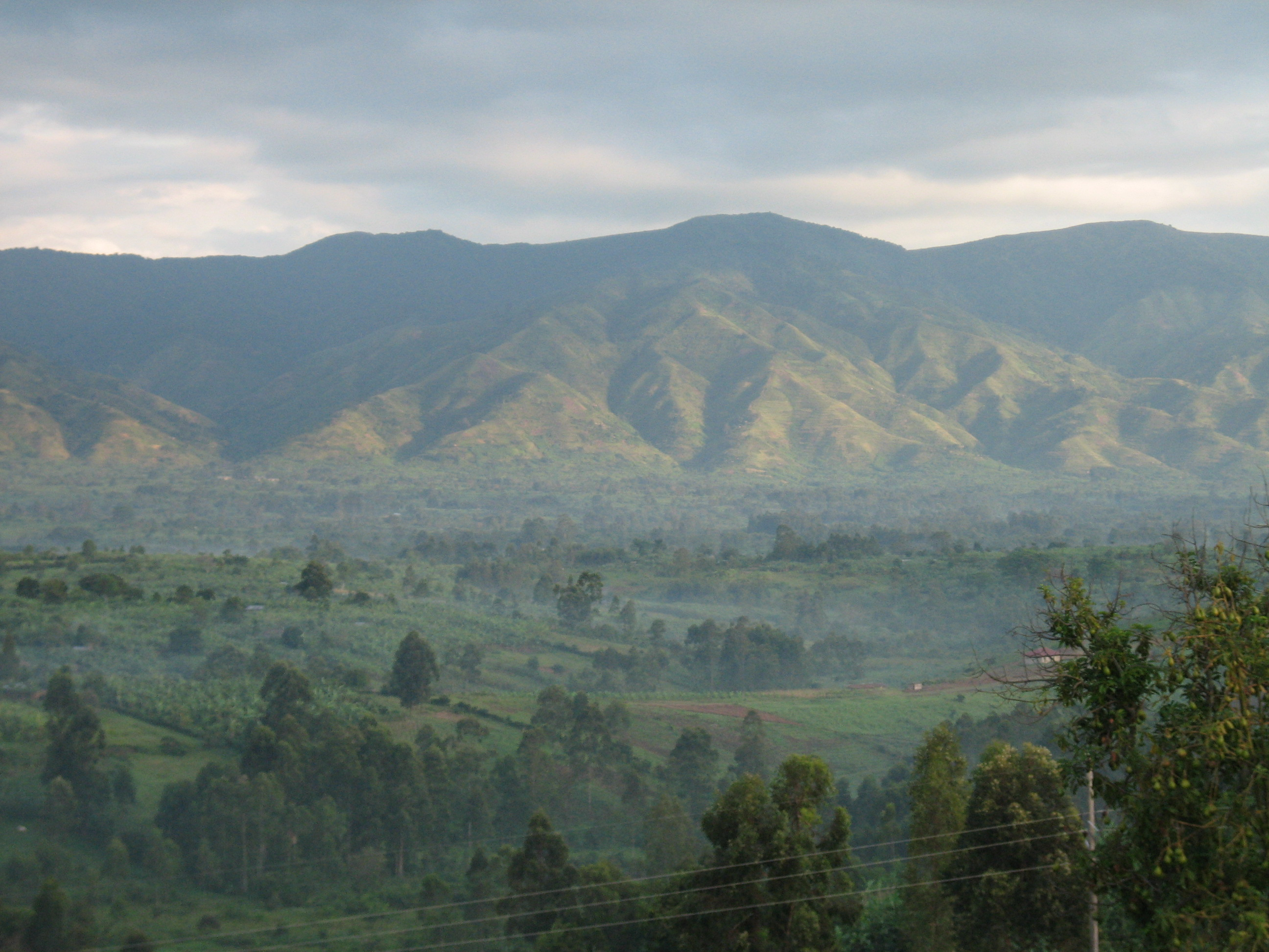 The Rwenzori Mountains and Great Rift Valley in the morning hours. A few km's south of Fort Portal, in Rwenzori Mountains National Park, the Kabarole District, Western Uganda.